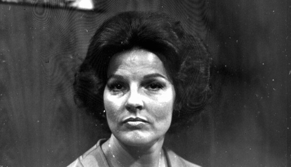 Anita Bryant, in a negative from a WCTV slide.